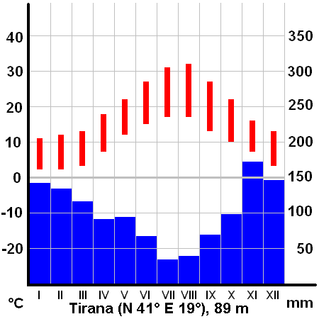 Climate diagram of Tirana, Albania max. and min. temperature and total precipitations per month drawn by Miaow Miaow, March 2005